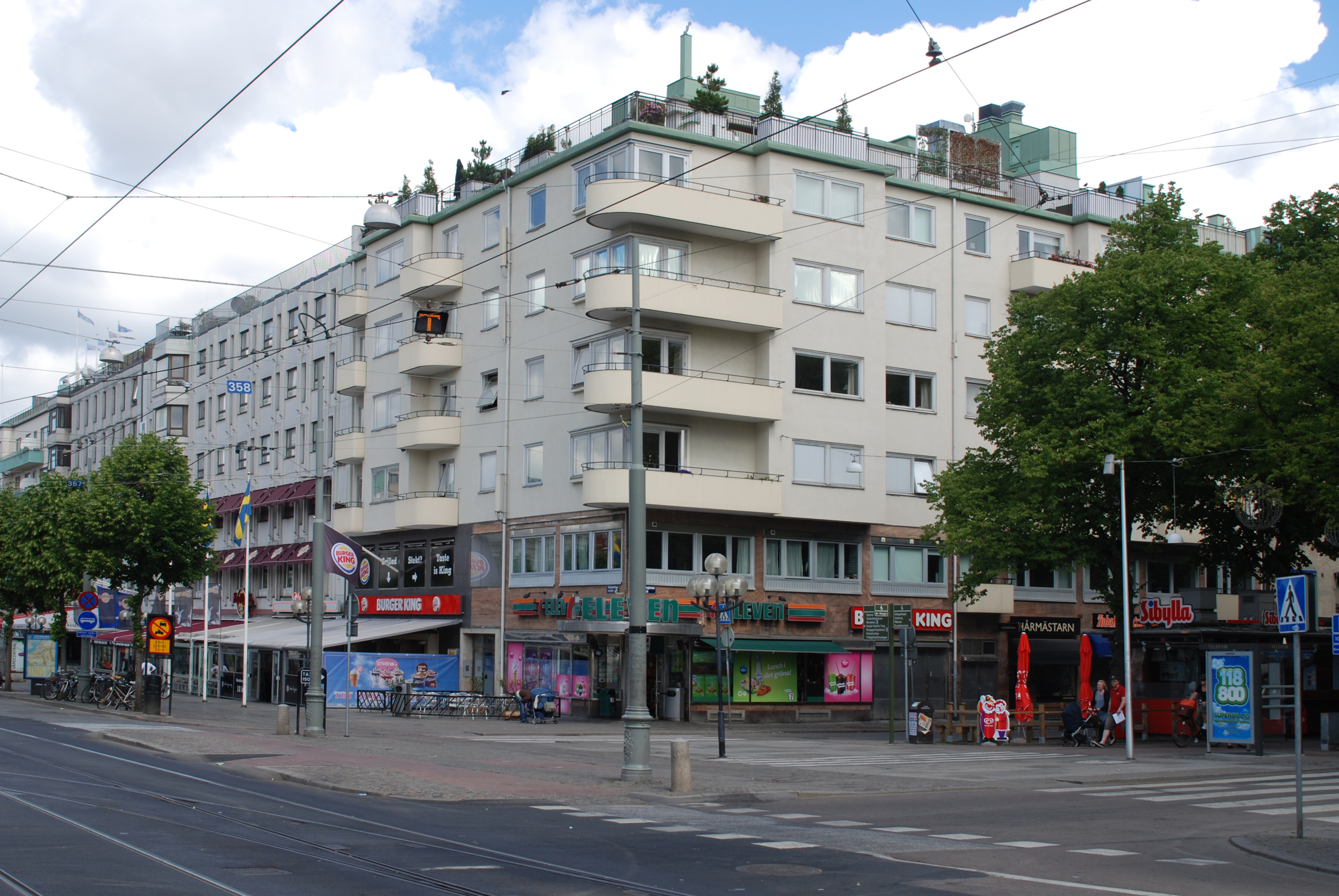 Kungsportsavenyn 14, city block 45 Kastellholm in quarter Lorensberg in Göteborg.